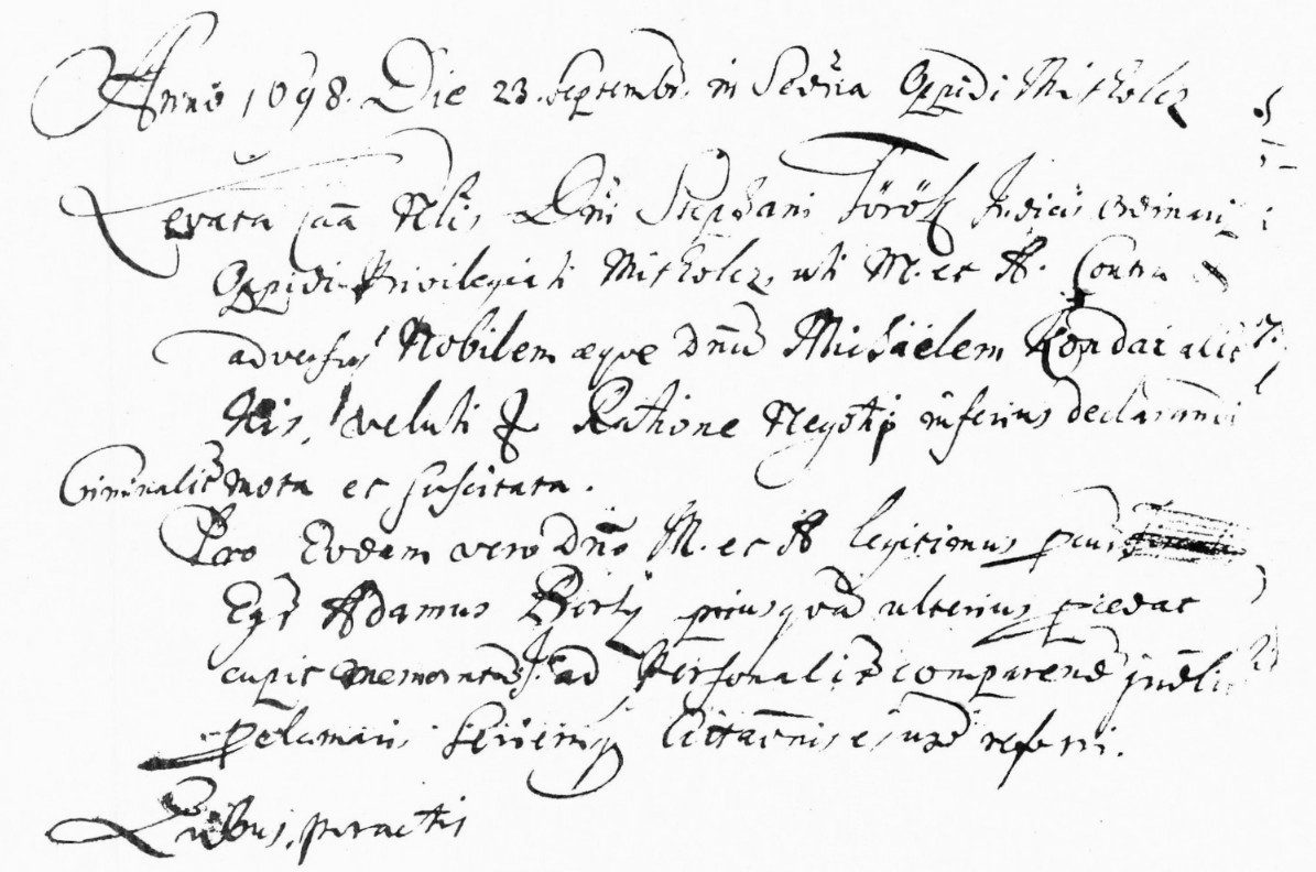 Questioning Protocol of Mihály Kondai Kiss from 1698, details